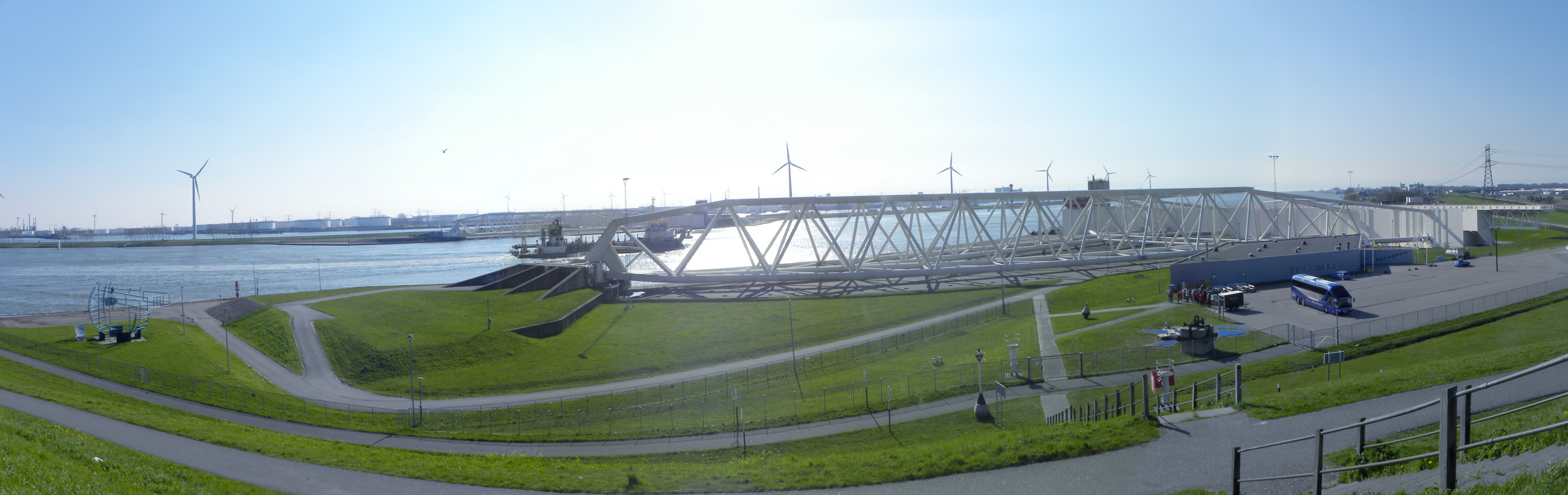 Panorama of the Maeslantkering. A retractable barrier in the Nieuwe Waterweg. Part of the Delta Werken. Located near Hoek van Holland.